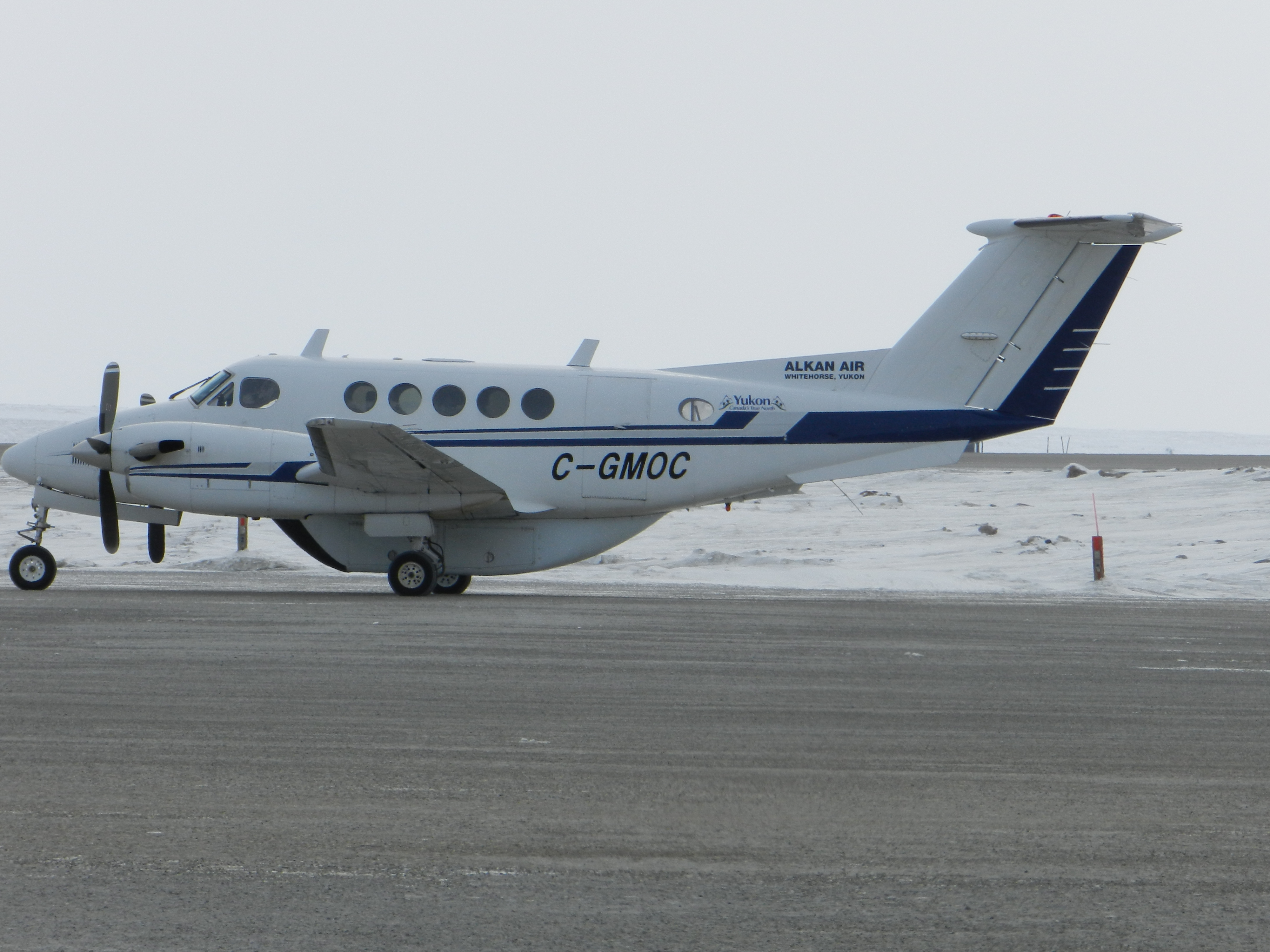 Alkan Air BE20 at Cambridge Bay Airport